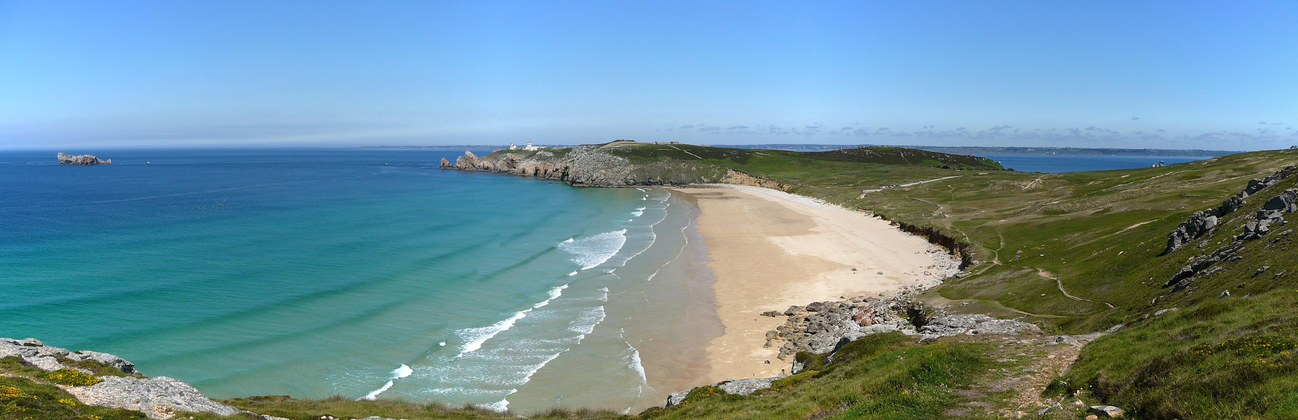 Pen-Hat beach, in Camaret-sur-Mer (Finistère, Britanny, west of France).